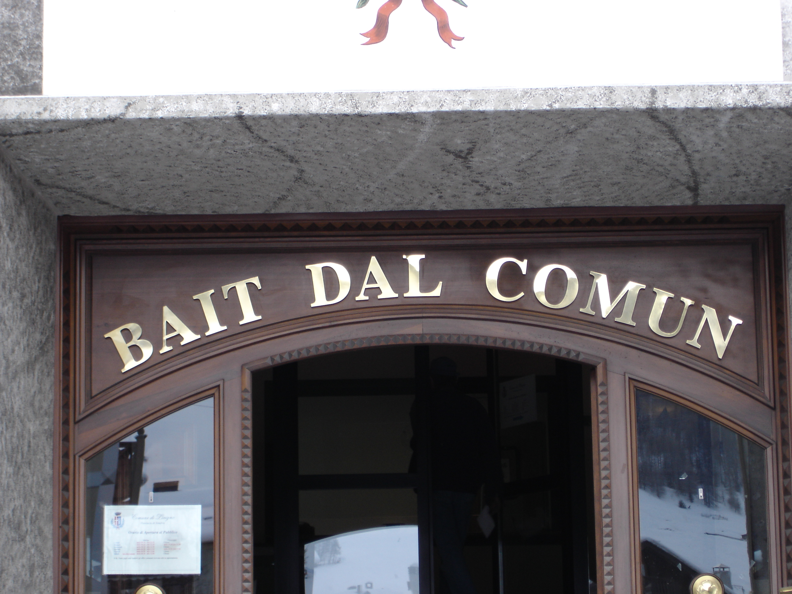 The Town Hall sign in the local Lombard variety of Livigno (SO), Italy